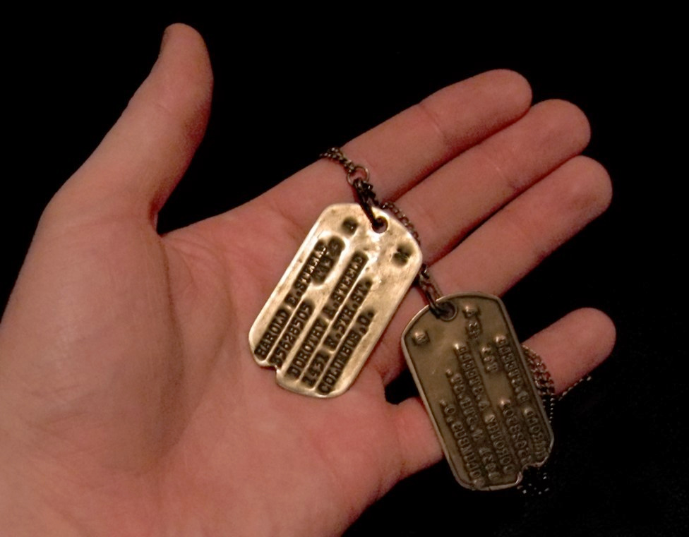 Dog tags of a World War II U.S. Army soldier. The tags included the name and address of his wife below his information. The small "A" in the upper left corner denotes his blood type; the small "M" below that his gas mask size (medium).